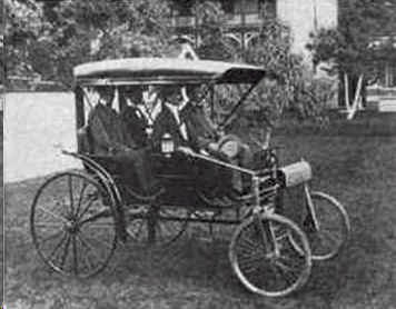 1901 Tractobile Tracto-Surrey The Tractobile was a device built by the Pennsylvania Steam Vehicle Company in Carlisle PA. Mounted to horse carriages, it made them motorized. Power was by a steam engine. The Company offered also complete cars like this Tracto-Surrey. This picture was used in several publications and in advertising as late as 1903, although offical production ended in 1902.